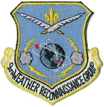 9th Weather Reconnaissance Group - Emblem